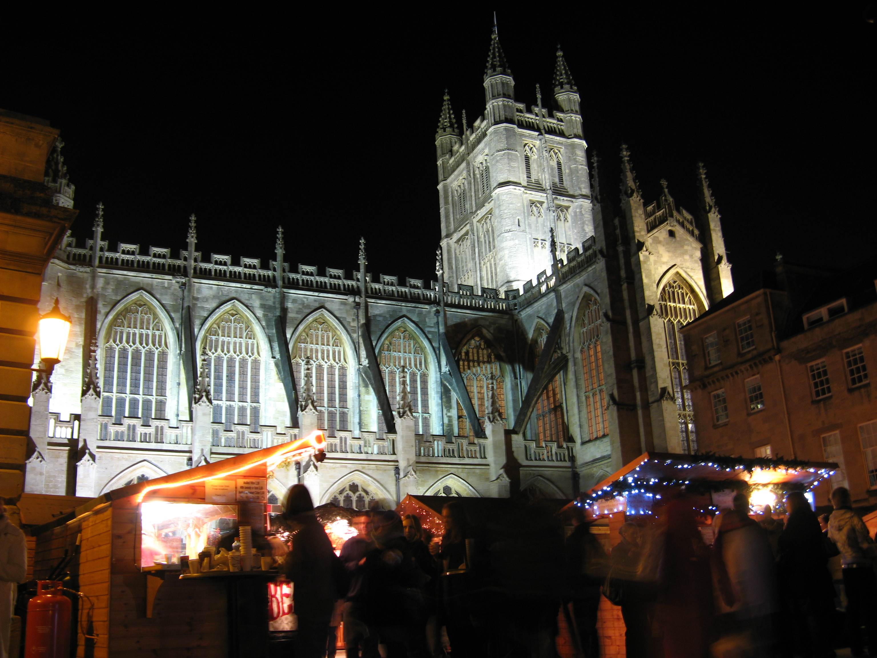 Bath Abbey, with Christmas market in foreground, nighttime